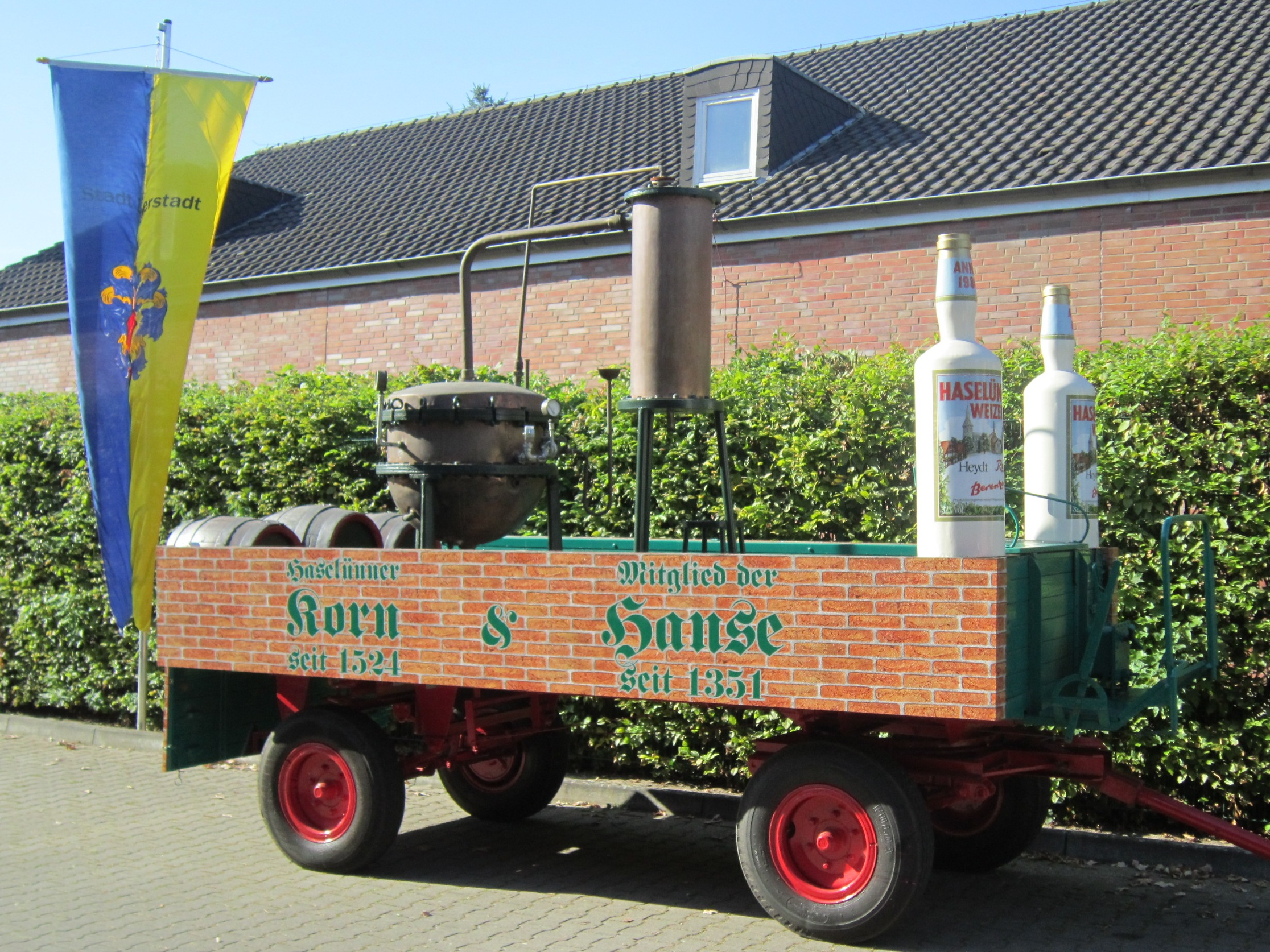 Historical "Korn- und Hansemarkt" Haselünne